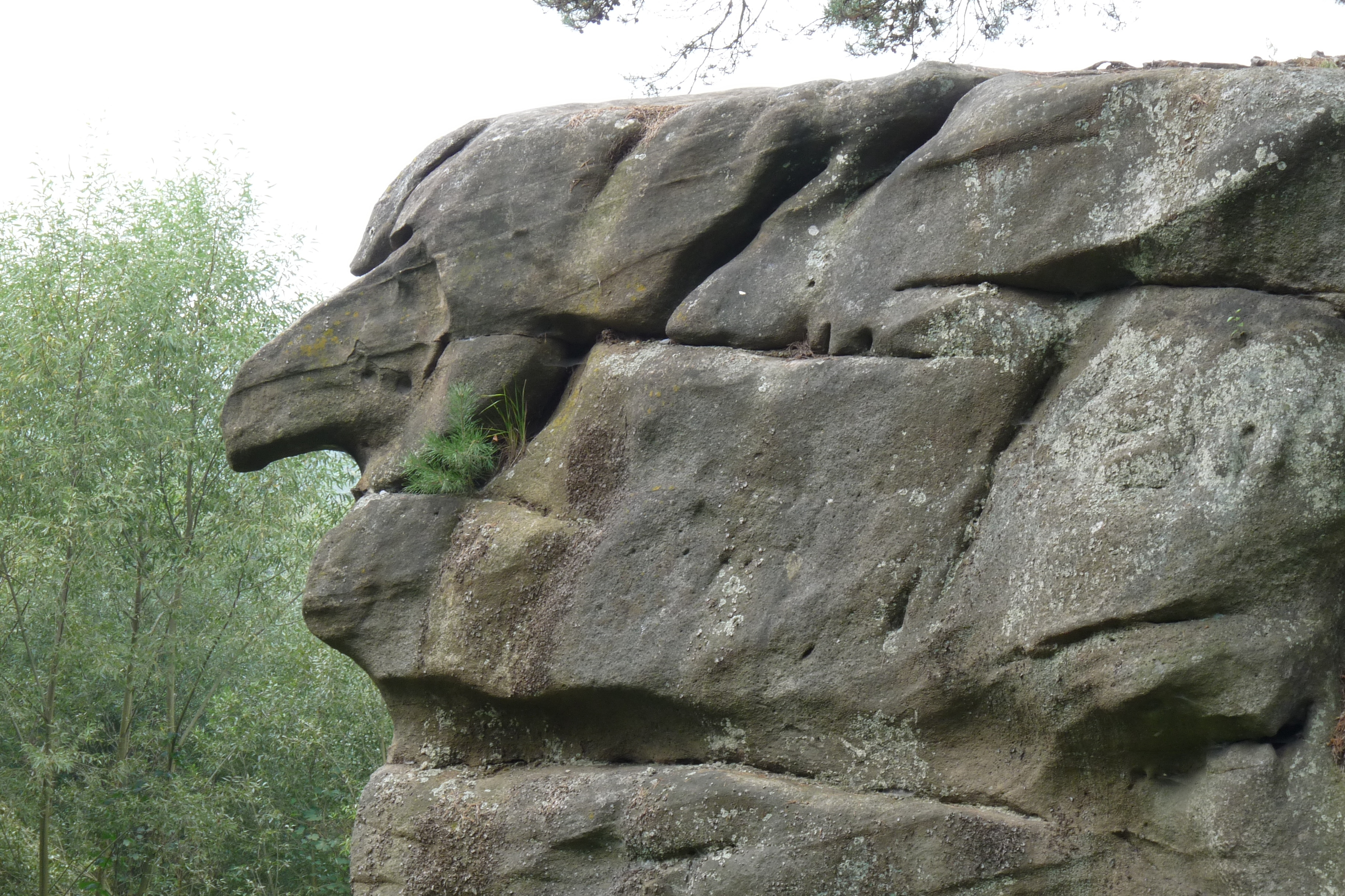 Nature reserve Skamieniałe Miasto